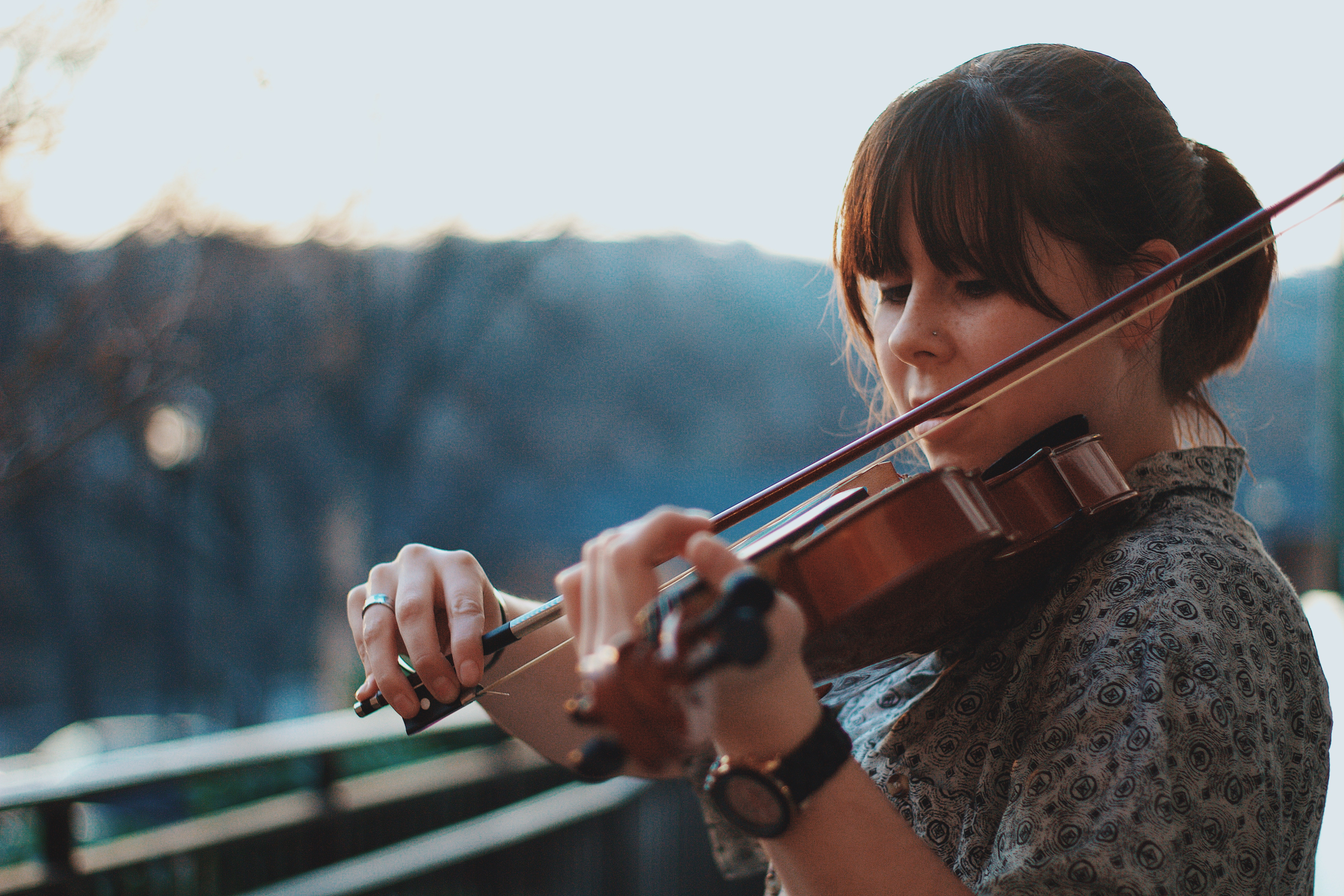 Trevecca Nazarene University, Nashville, United States